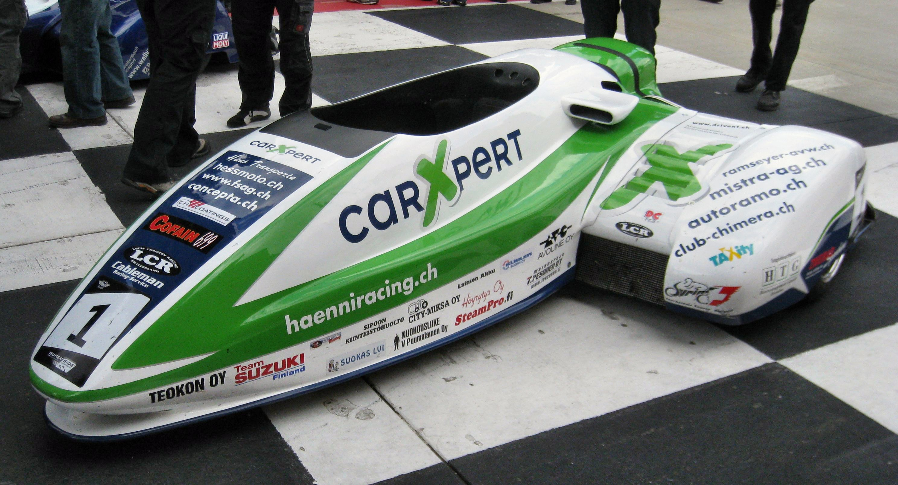 Pekka Päivärintas LCR-sidecar of the 2012 season at EuroSpeedway Lausitz